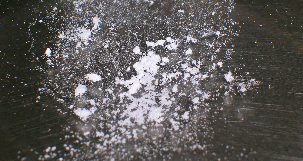 Clotrimazole